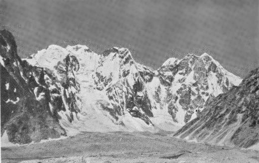 Enclosing Wall and Head of Glacier tributary, right bank, Bhagat Kharak (Bhagirath Kharak)